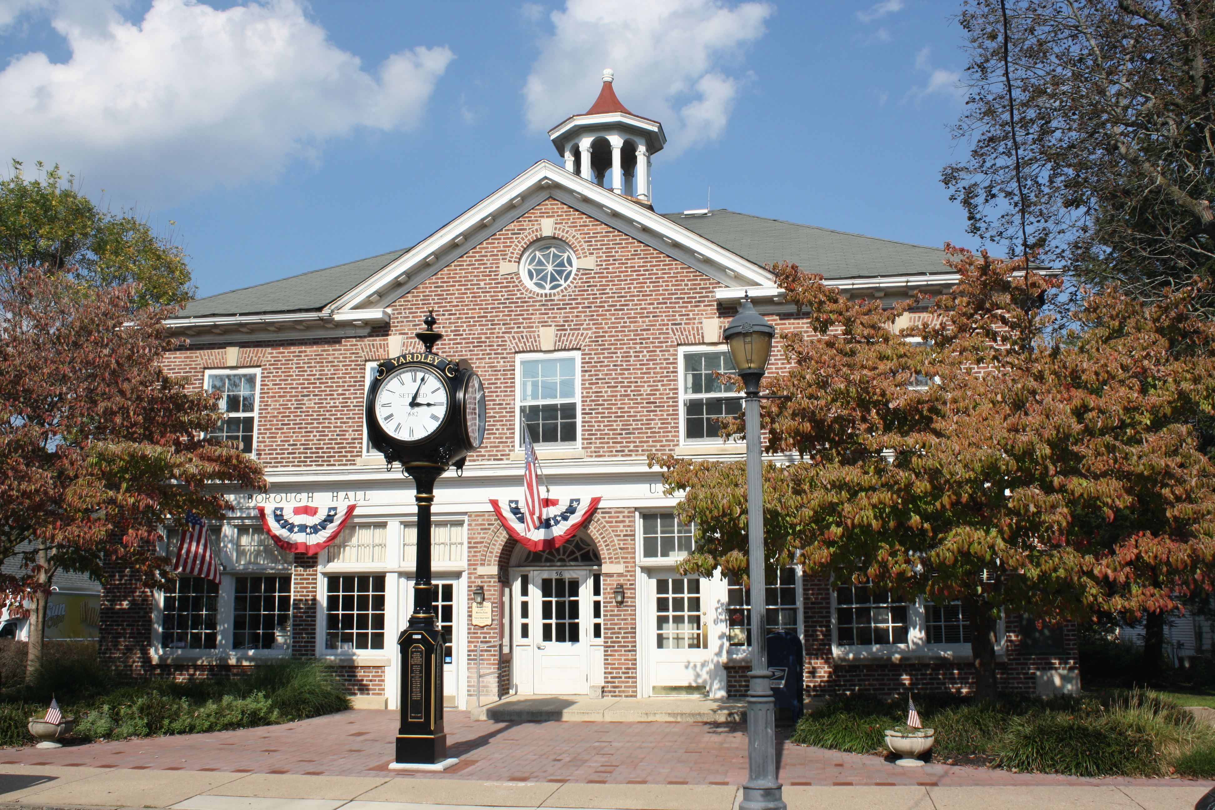 Yardley Historic District, Yardley, Pennsylvania. Borough Hall, 56 S. Main Street. Object location40° 14′ 34″ N, 74° 50′ 11″ W